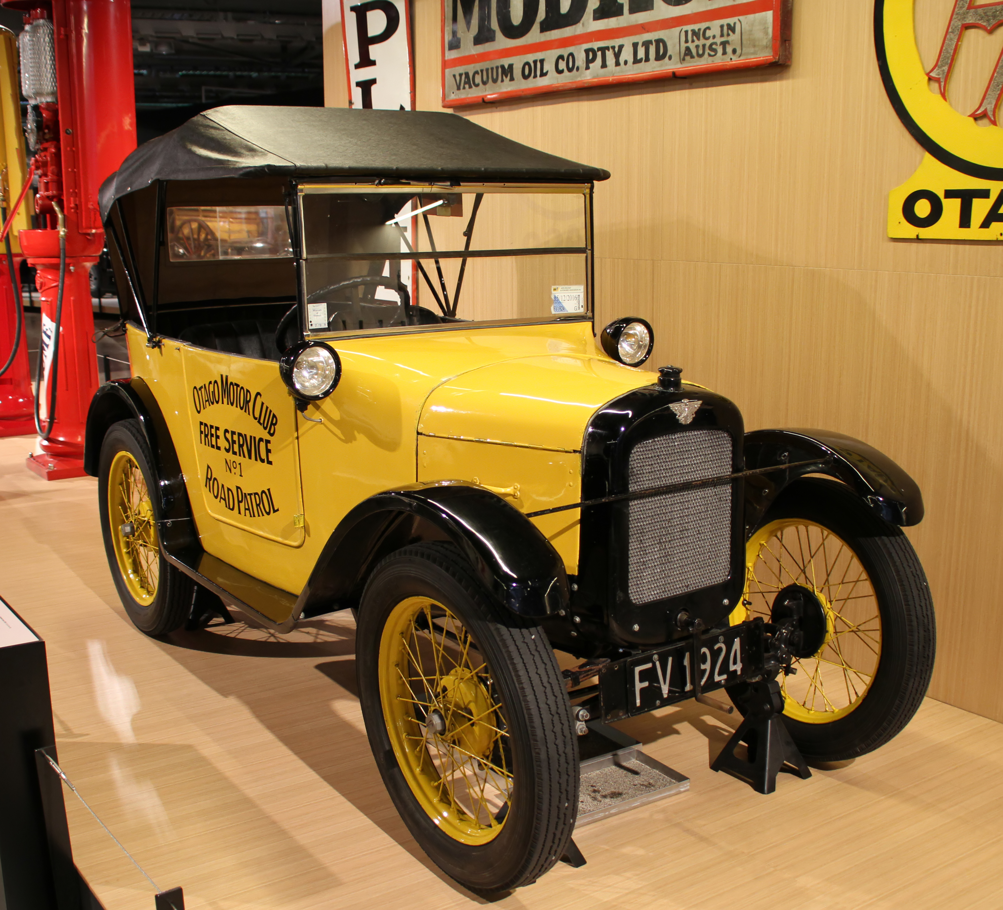 1924 Austin Seven